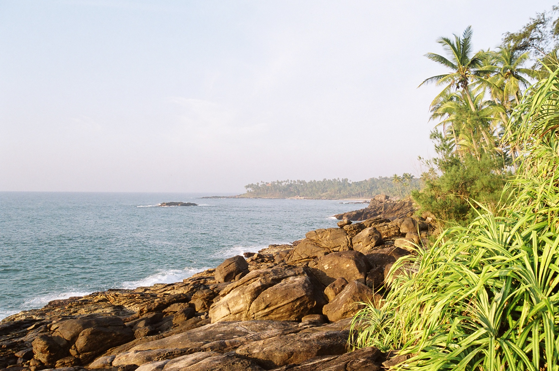 Sri Lanka, coast of Tangalle